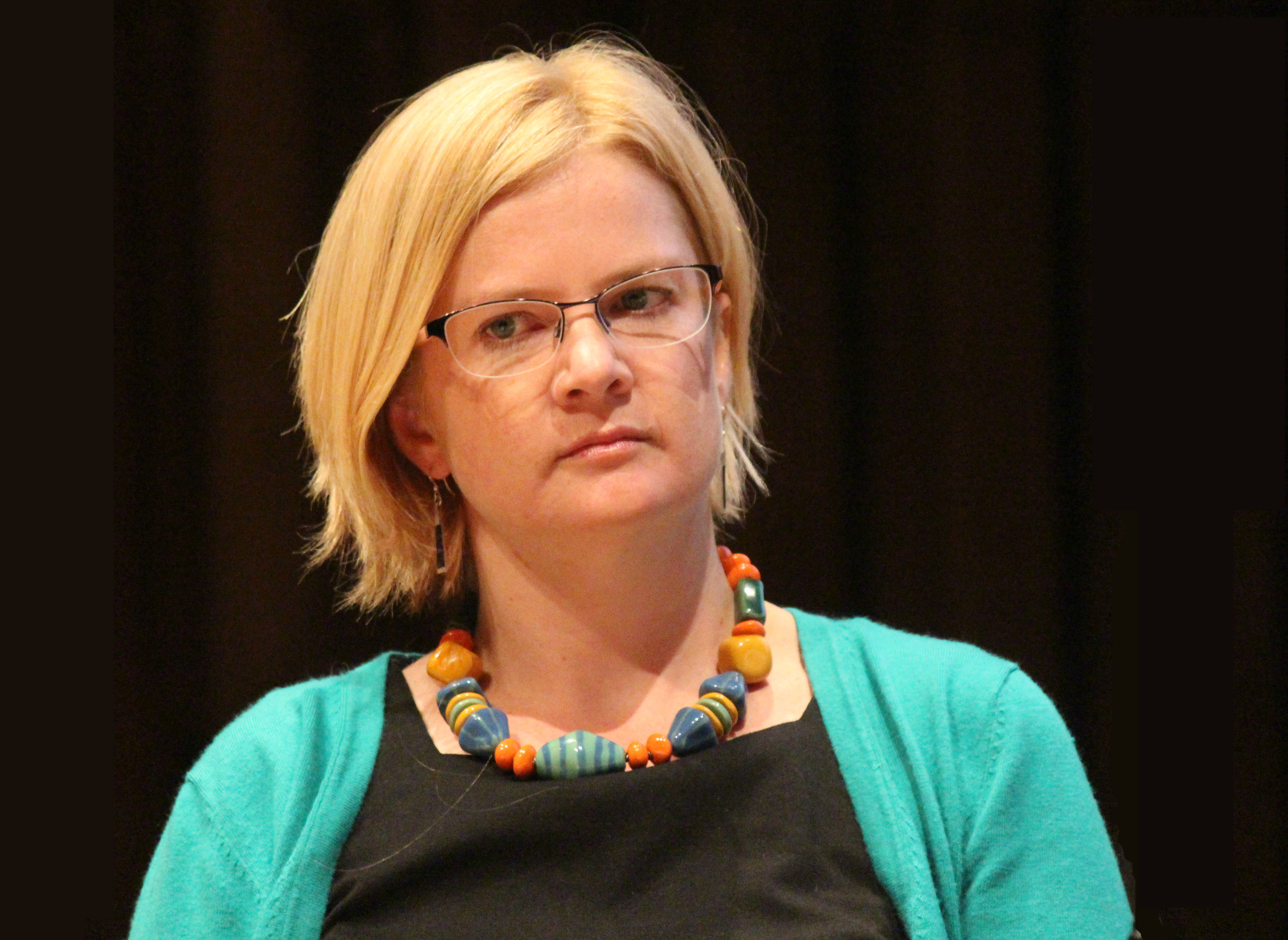 Heather Ford at a Wikimania 2014 at Barbican Centre, London